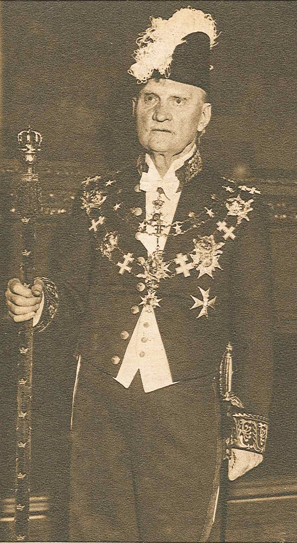 Axel Vennersten (1863-1948), Swedish industrialist, politician, minister of finance and Marshal of the Realm (Riksmarskalk).